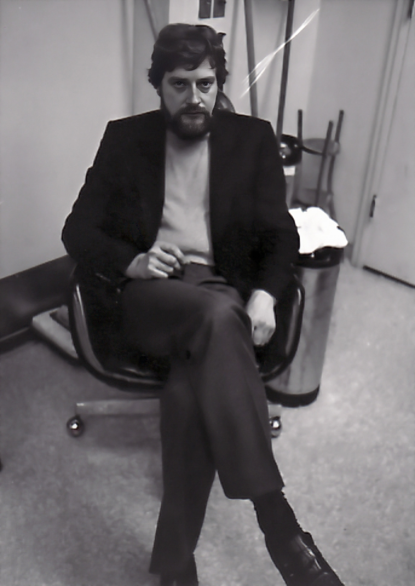 Don Thompson At Otter Crest, Oregon. May 1989.